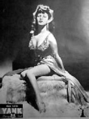 Pin-up photo of Ann Corio for the Sep. 3, 1943 issue of Yank, the Army Weekly, a weekly U.S. Army magazine fully staffed by enlisted men.